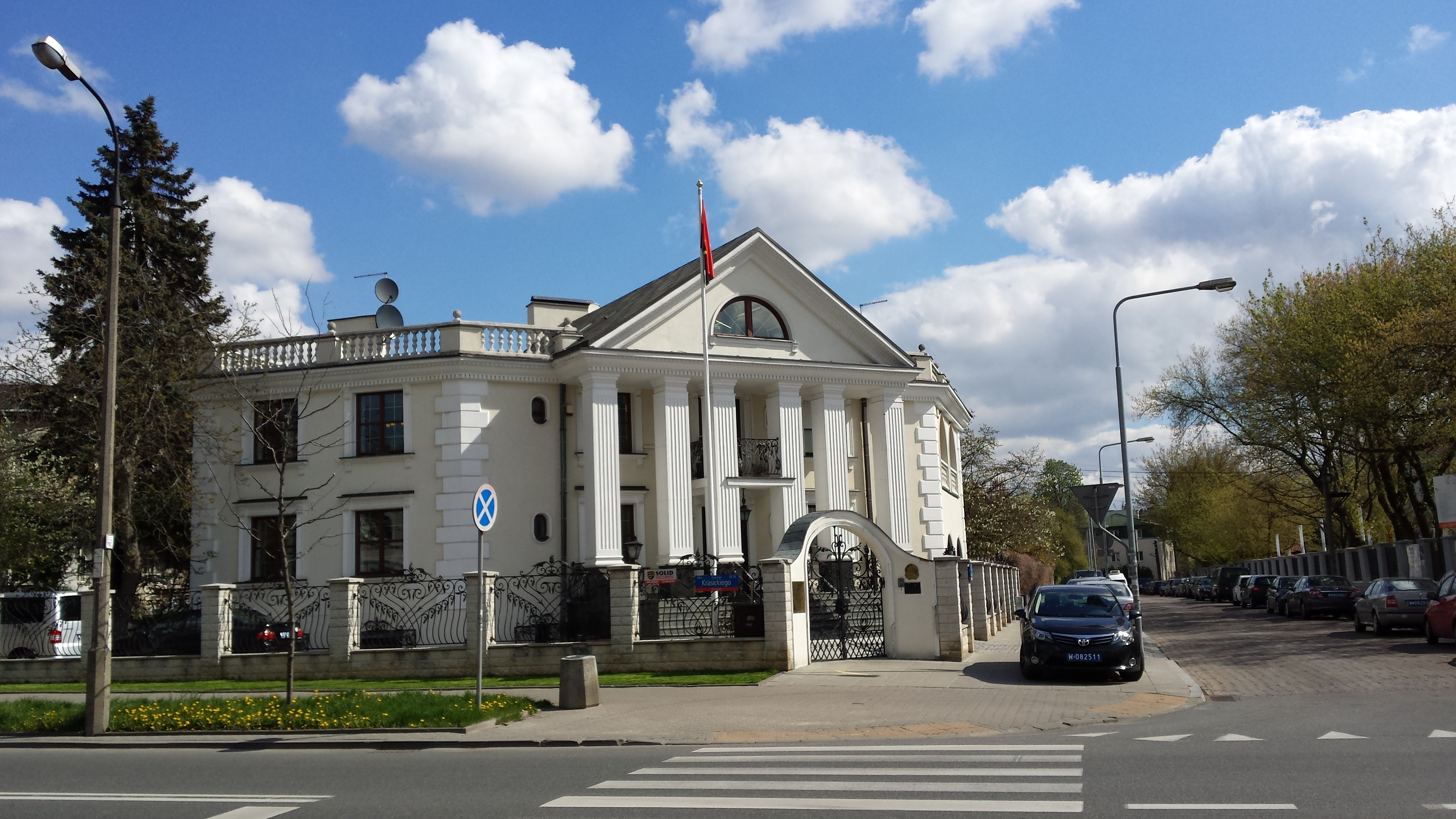 Embassy of Angola in Warsaw